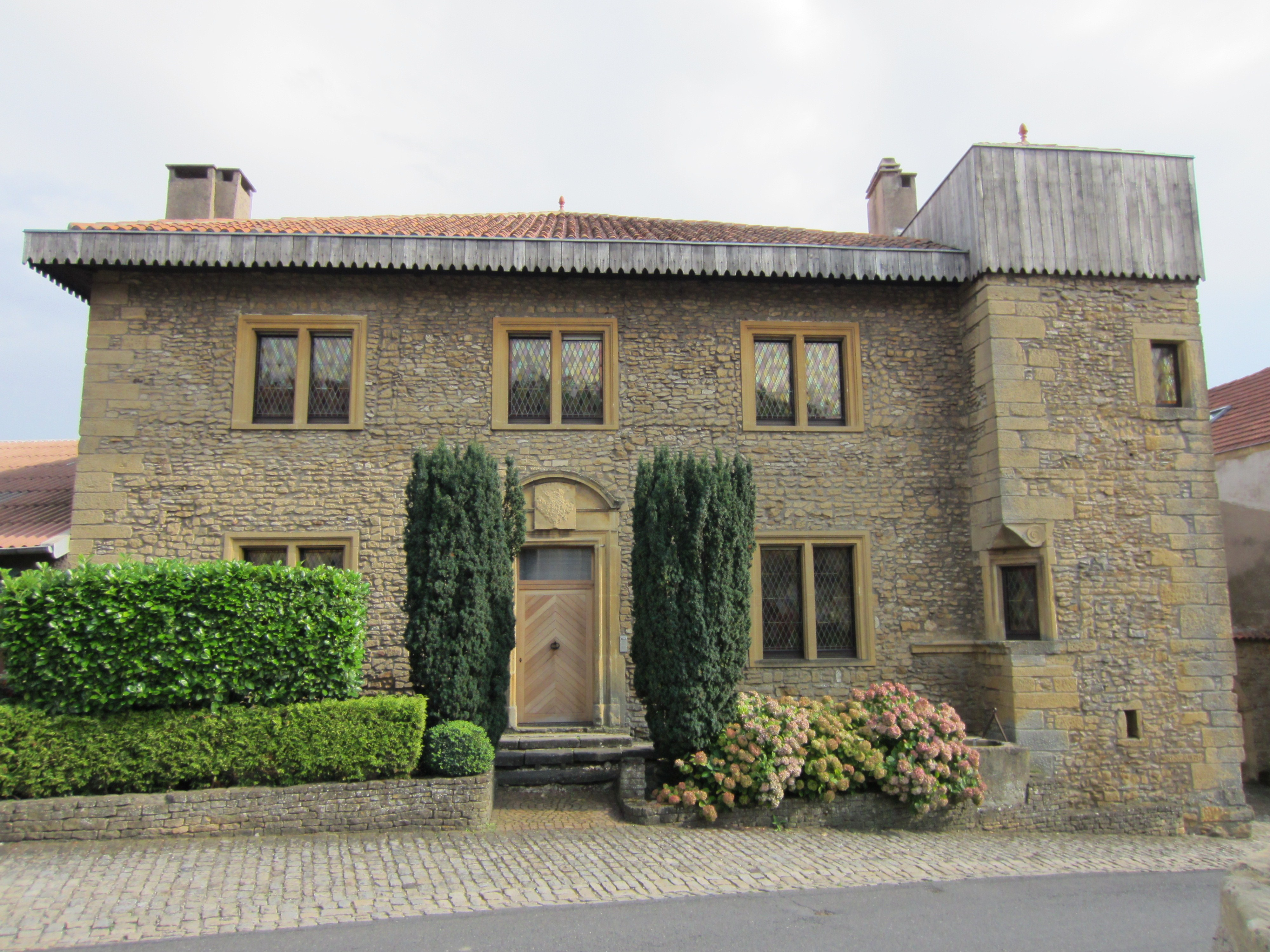 Description chateau Marange Date3 September 2011Sourcemon appareil photoAuthorAimelaimePermission(Reusing this file) chateau Marange